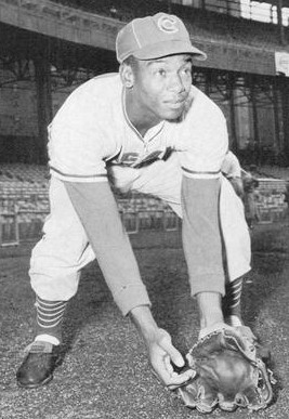 Professional baseball player Ernie Banks